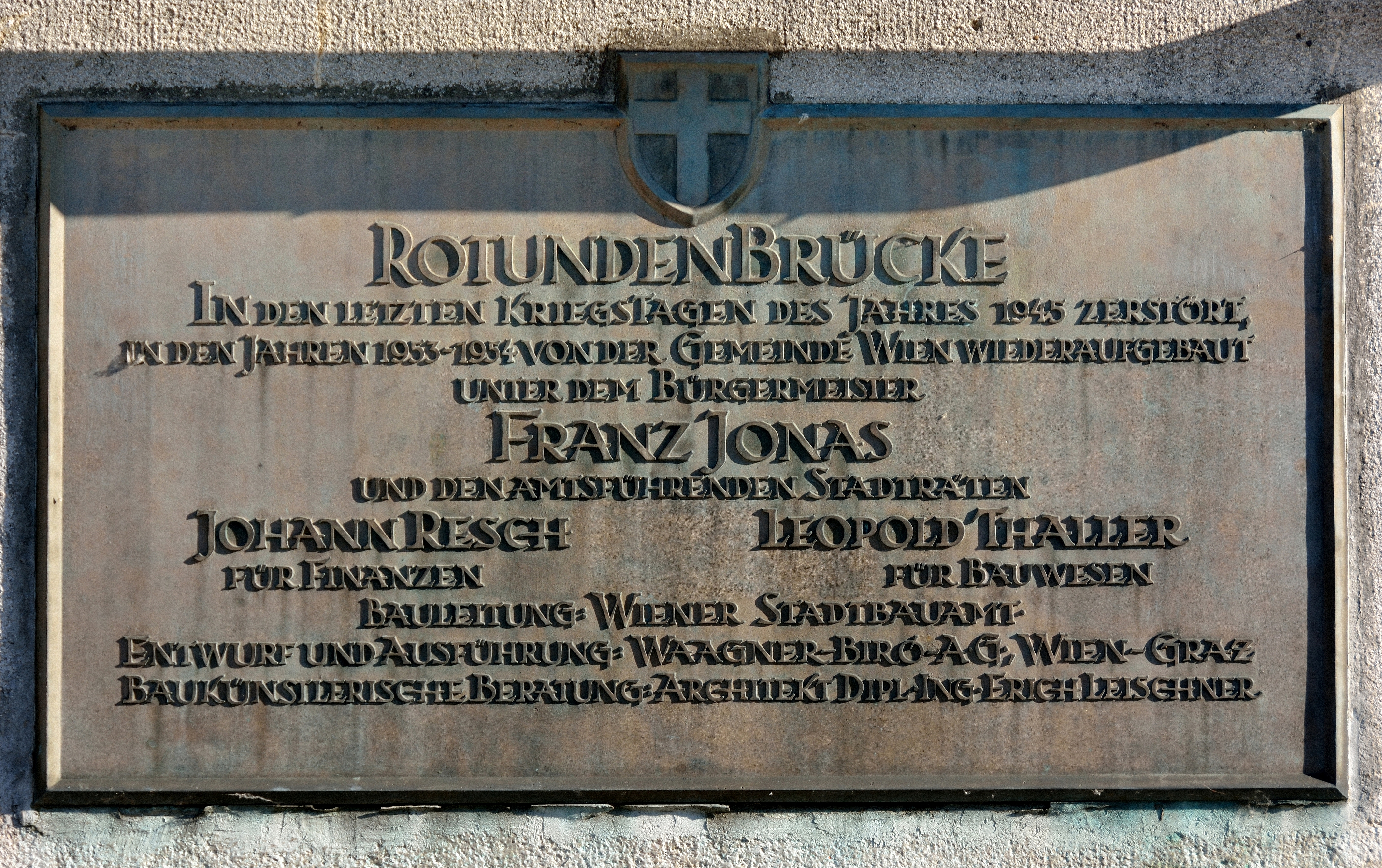 Plaque at Rotundenbrücke, 3rd district of Vienna